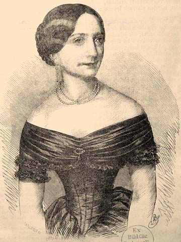 Kornélia Hollósy